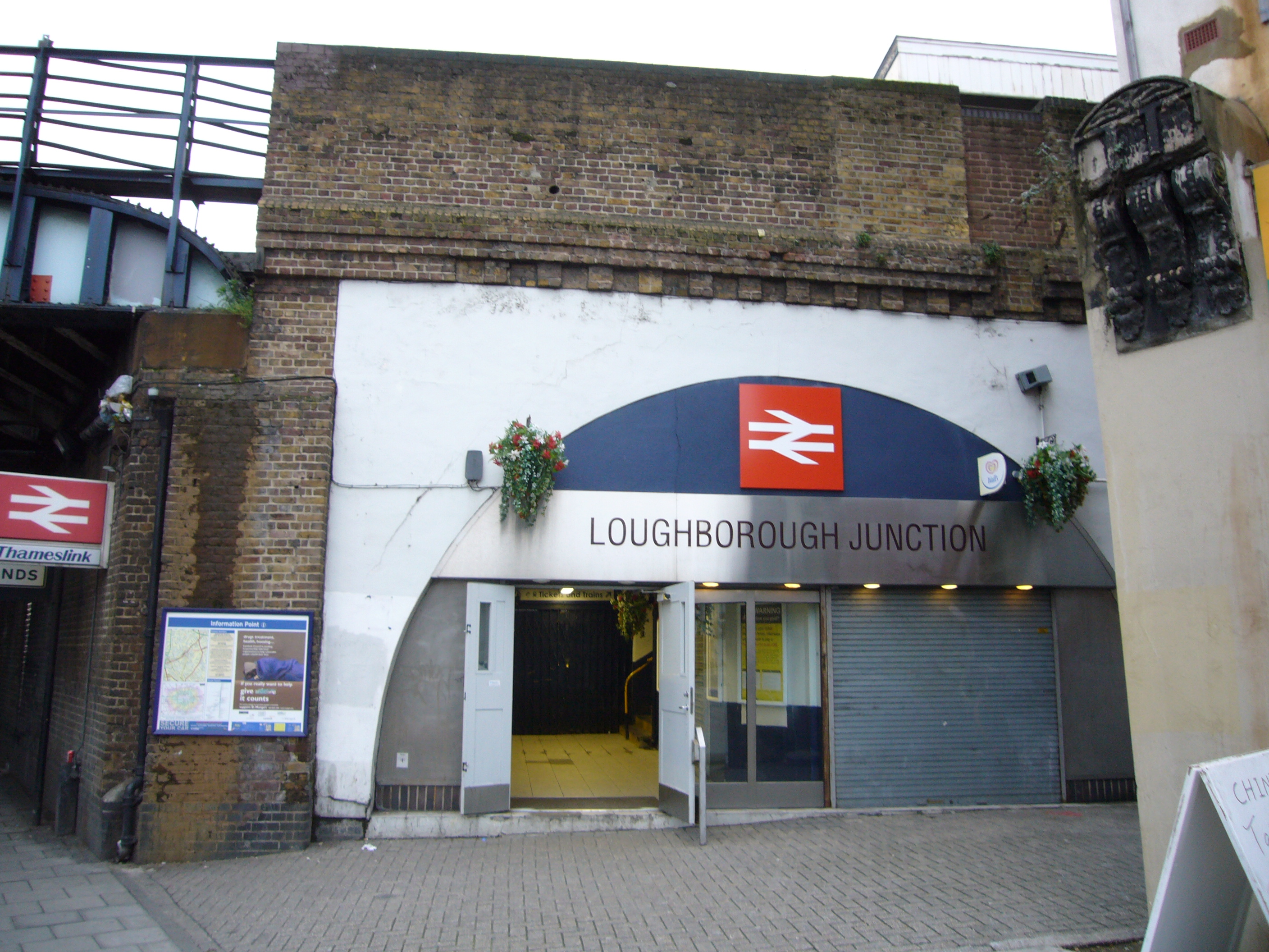 The entrance to Loughborough Junction railway station in South East London